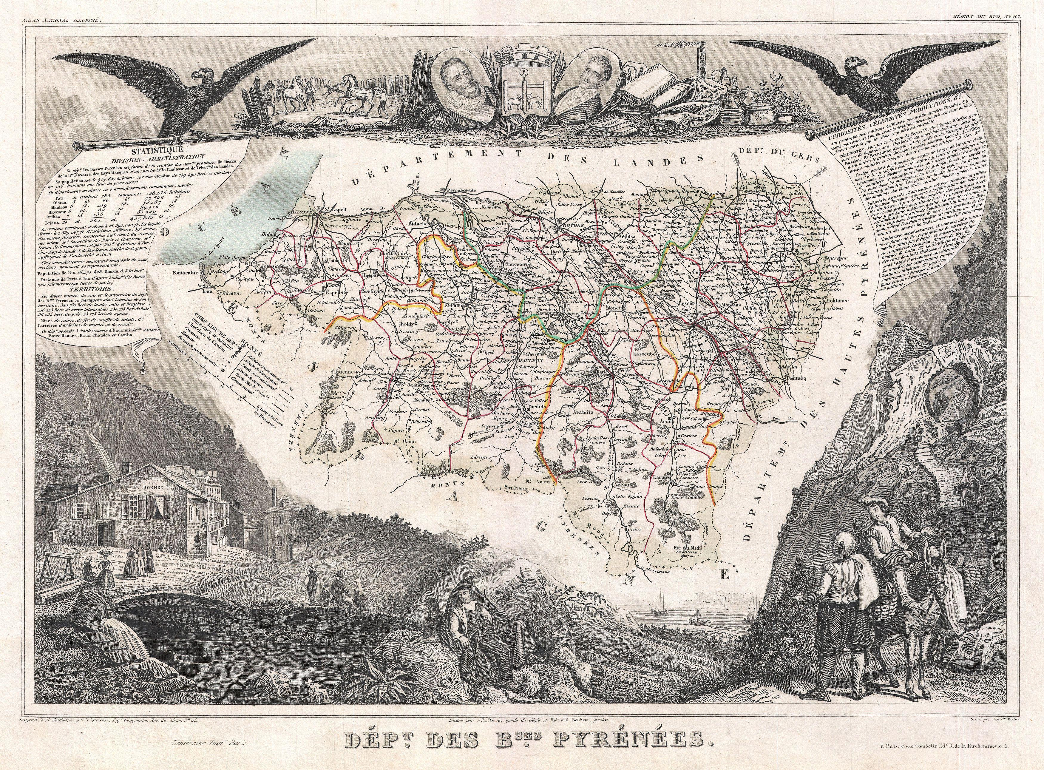 This is a fascinating 1852 map of the French department of Basses Pyrenees, France. This department includes the Jurancon wine region, famous for its production dry wines and sweet white wines. The famous Pilgrimage to Santiago de Compostella passes through this heavily Basque region ultimately crossing the Pyrenees into Spain at St. Jean Pied-de-Port. The map proper is surrounded by elaborate decorative engravings designed to illustrate both the natural beauty and trade richness of the land. There is a short textual history of the regions depicted on both the left and right sides of the map. Published by V. Levasseur in the 1852 edition of his Atlas National de la France Illustree.